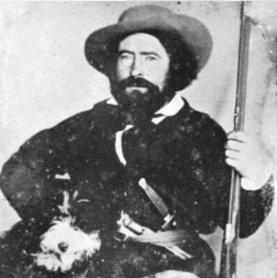 Jasper O'Farrell